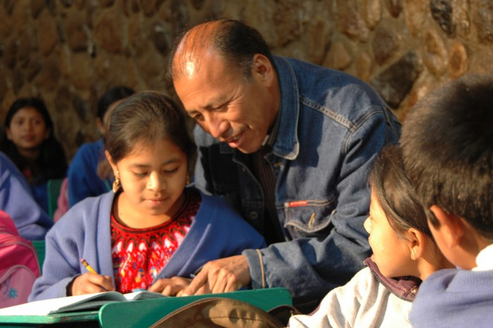 A teacher works with a K’iche’ Maya student at her school in Santa Cruz del Quiché, Quiché, Guatemala. During the Peace Accord implementation between 1997 and 2004, USAID pioneered girls’ education in the Western Highland region of Guatemala where the gender gap in school attendance and primary school completion was wide. The result of USAID work with the Ministry of Education has been a significant increase in enrollment and graduation of girls in all of Guatemala over the last 15 years.